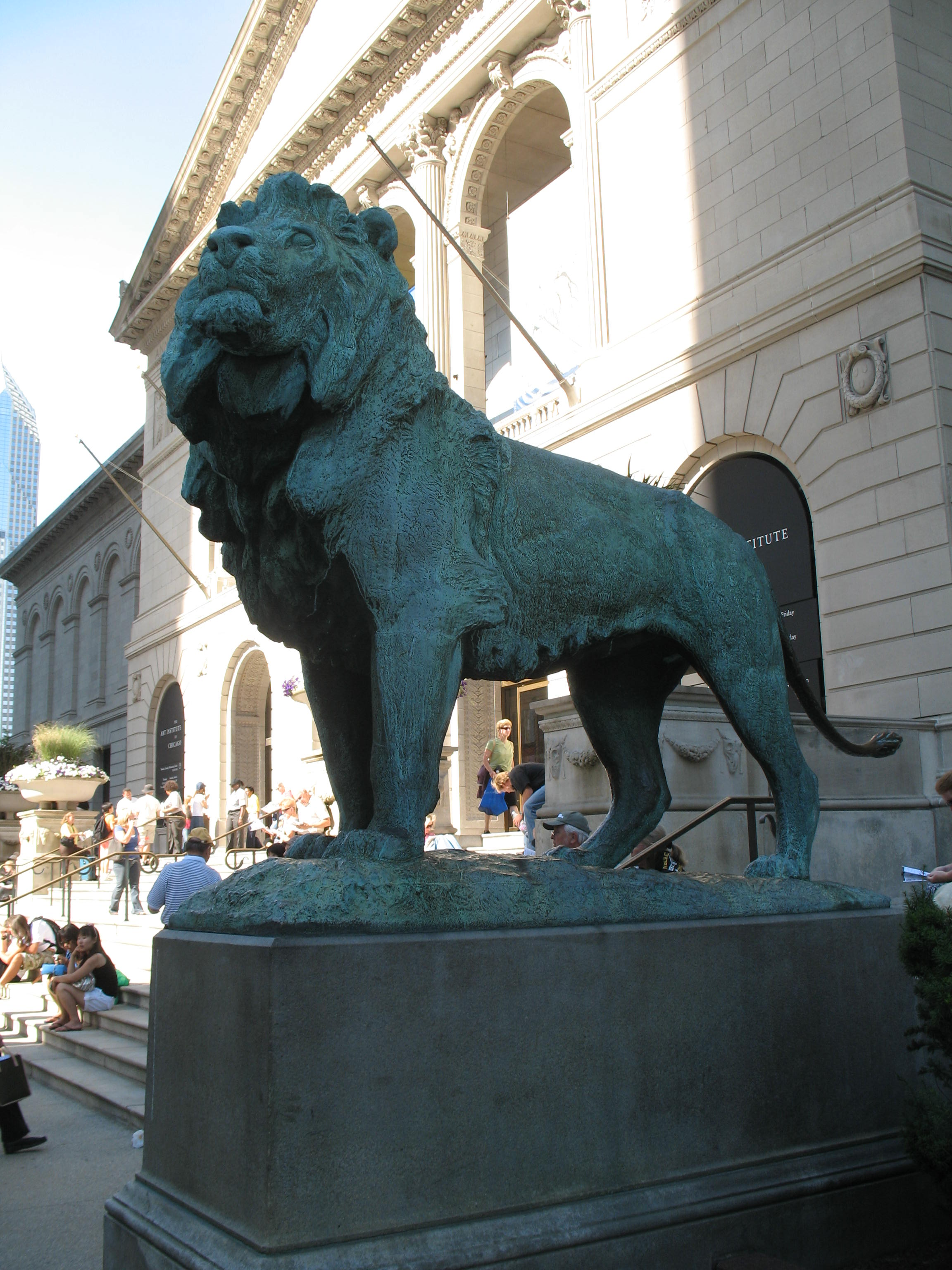 South lion at the Art Institute of Chicago Building. Sculpture by Edward Kemeys, pose designated by him as "stands in an attitude of defiance." Bronze, 1893.